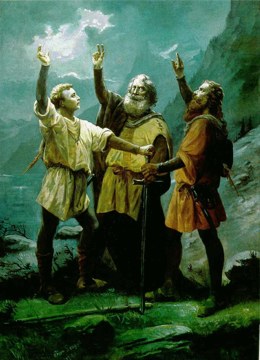 Idealized Picture of the Rütlischwur. oil on canvas We shall be a single People of brethren, Never to part in danger nor distress. We shall be free, just as our fathers were, And rather die than live in slavery. We shall trust in the one highest God And never be afraid of human power